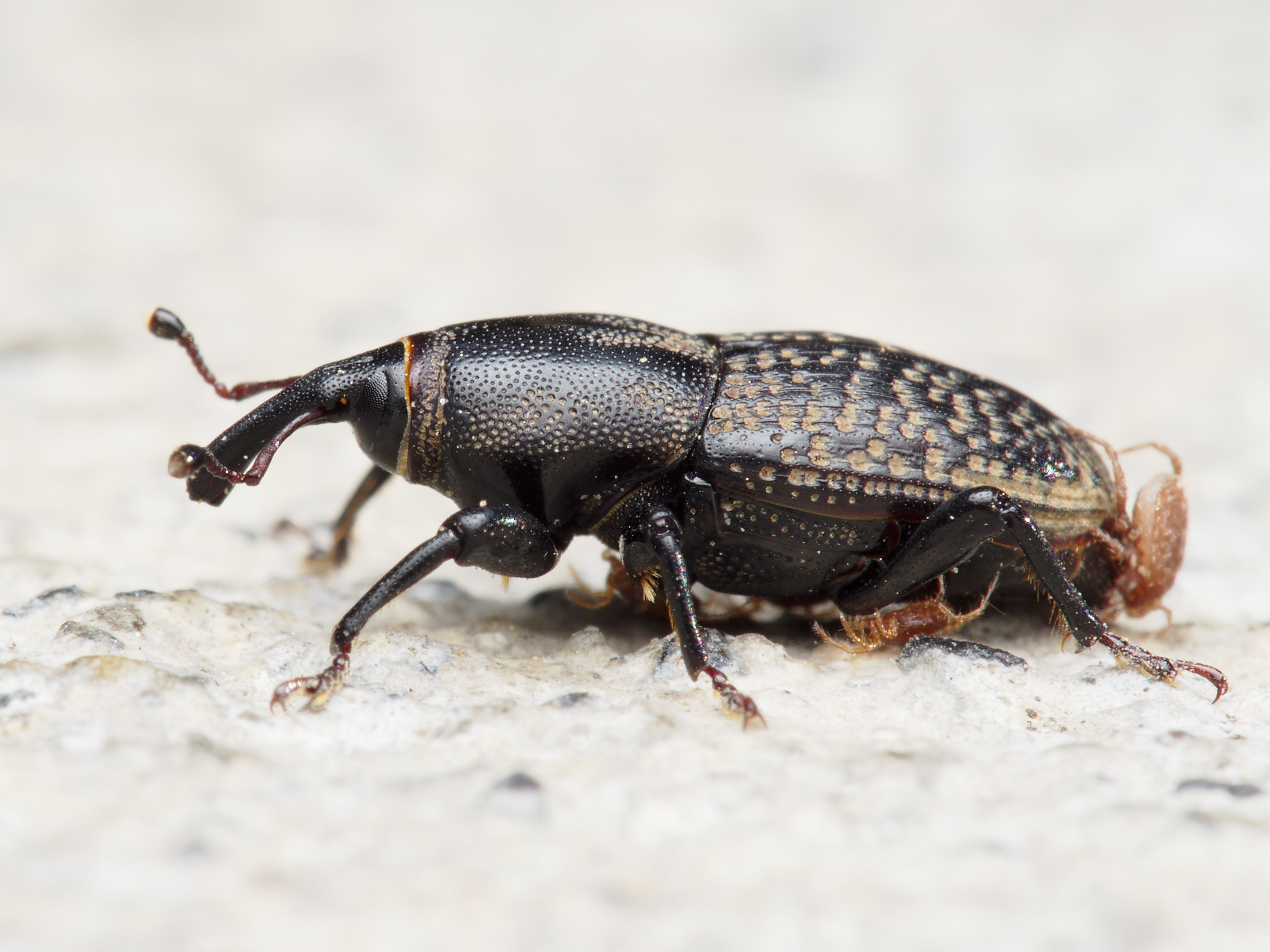 Sphenophorus cicatristriatus, the Rocky Mountain Billbug, playing host to several mites in Richland, Washington